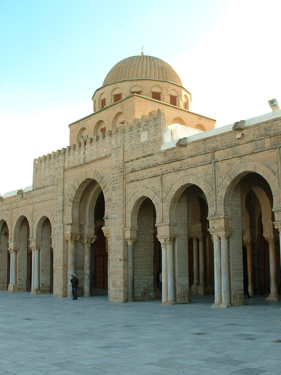 Arcade and cupola, on the Courtyard of the Great Mosque of Kairouan, Tunisia.